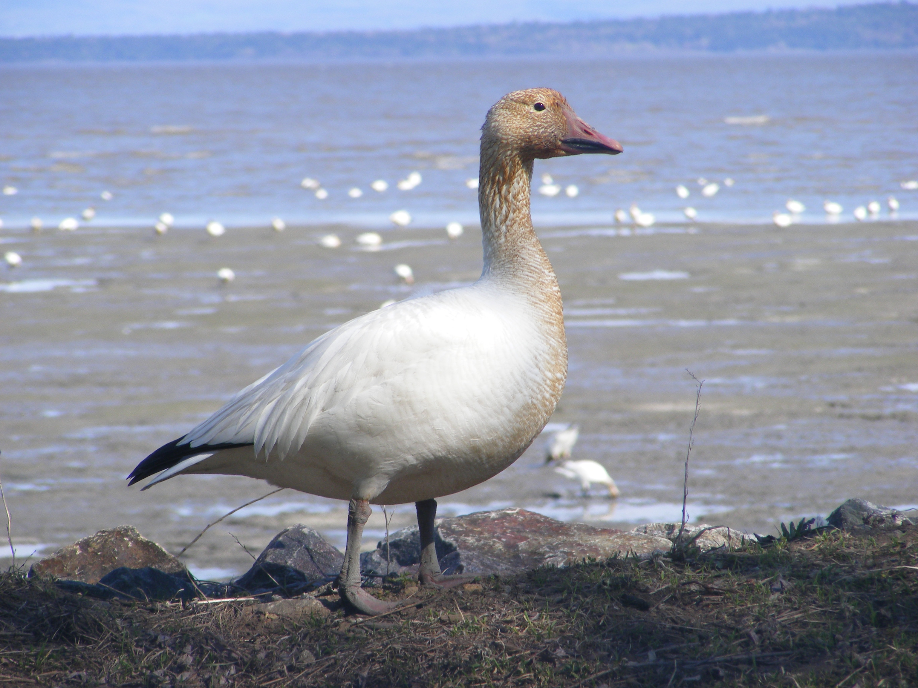 Snow goose (Anser caerulescens), Cap Tourmente National Wildlife Area, Quebec, Canada